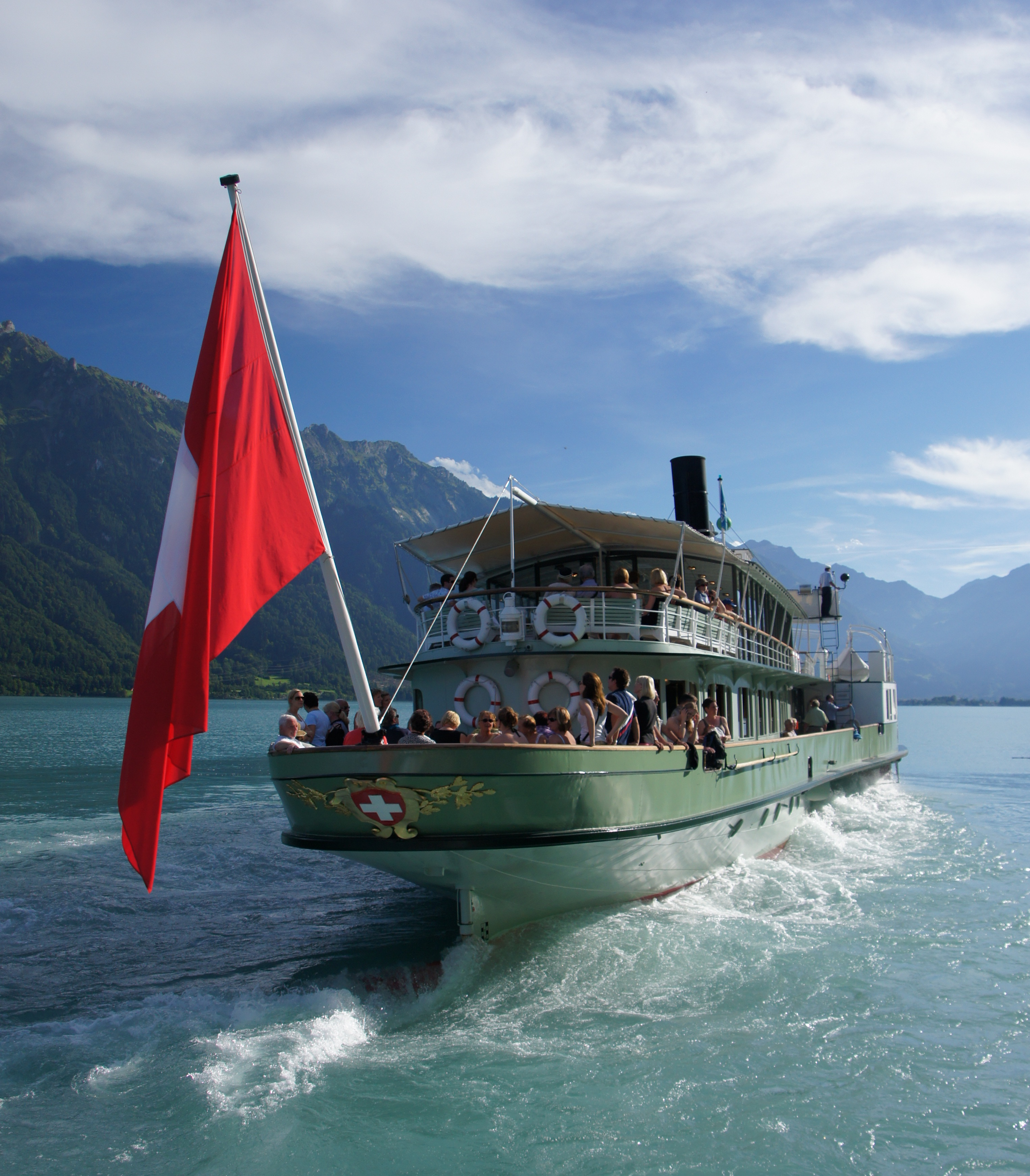 Lötschberg, paddle steamer on Lake Brienz